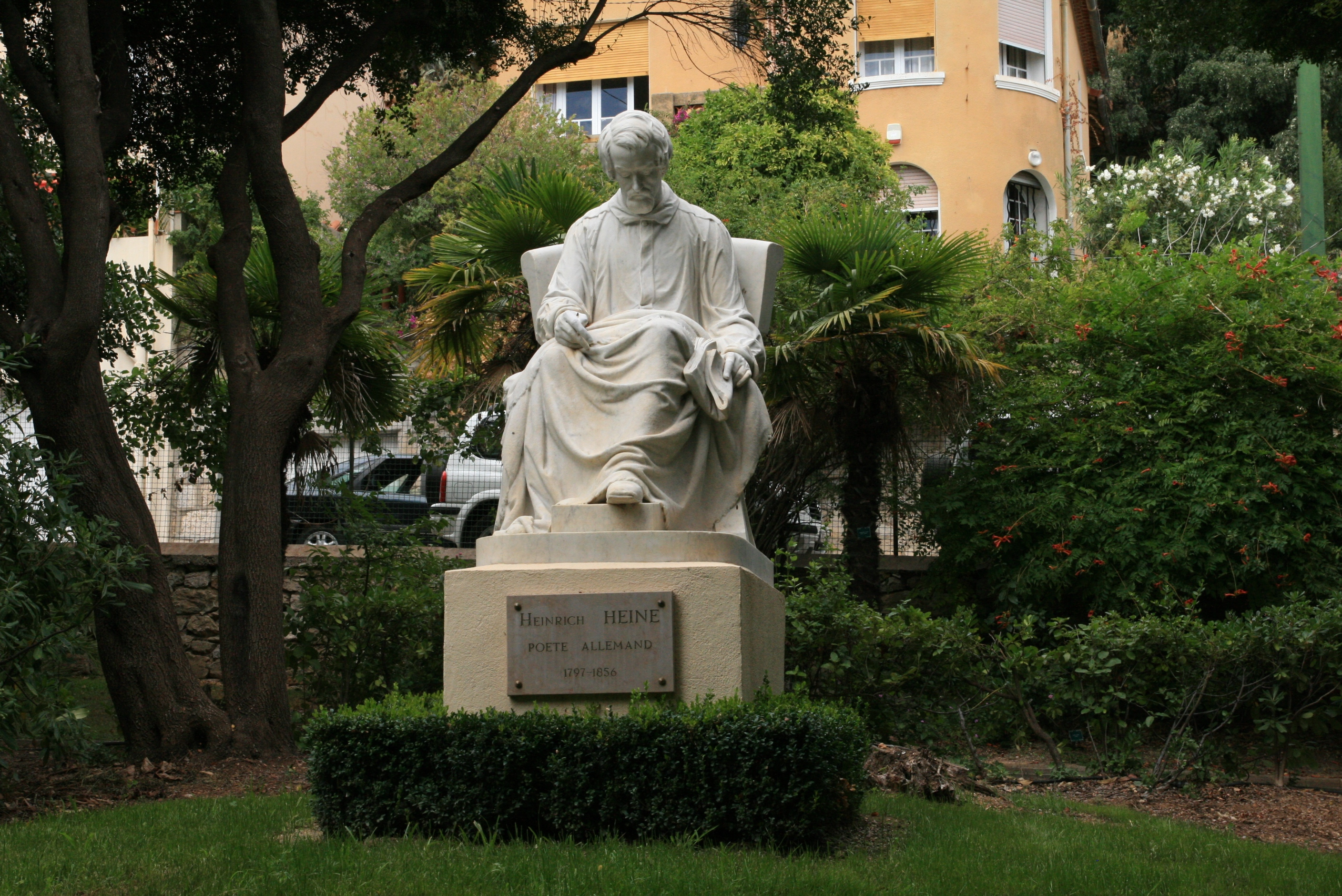 Heine Heinrich memorial by Louis Hasselriis, commissioned by Empress Elisabeth of Austria, currently in Toulon, France